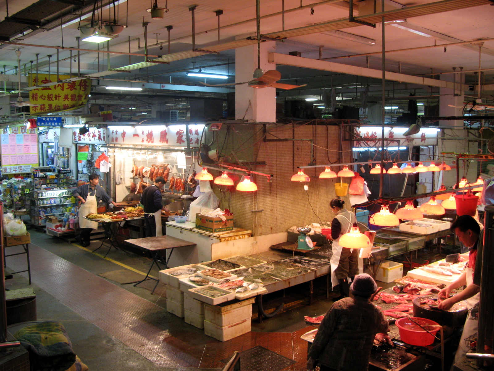 Chun Shek Market Interior.